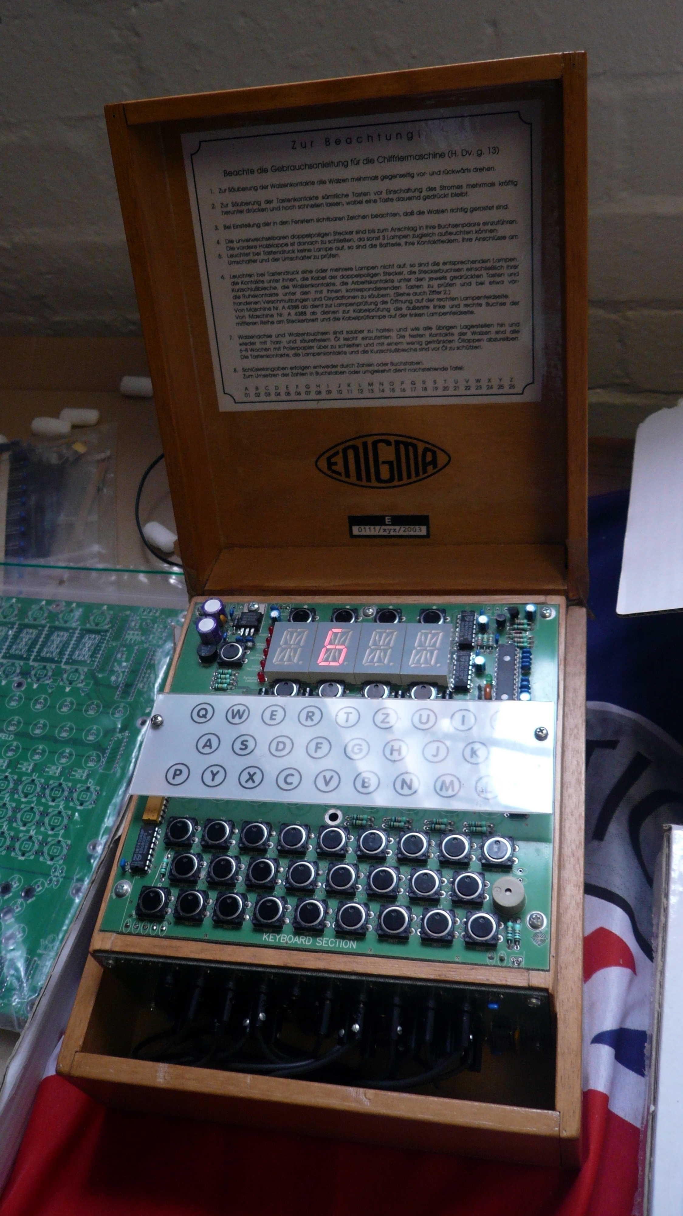 Flickr Tags: birthday uk bletchley bletchleypark crypto cipherpunk cypherpunk cryptonomicon enigma maker.